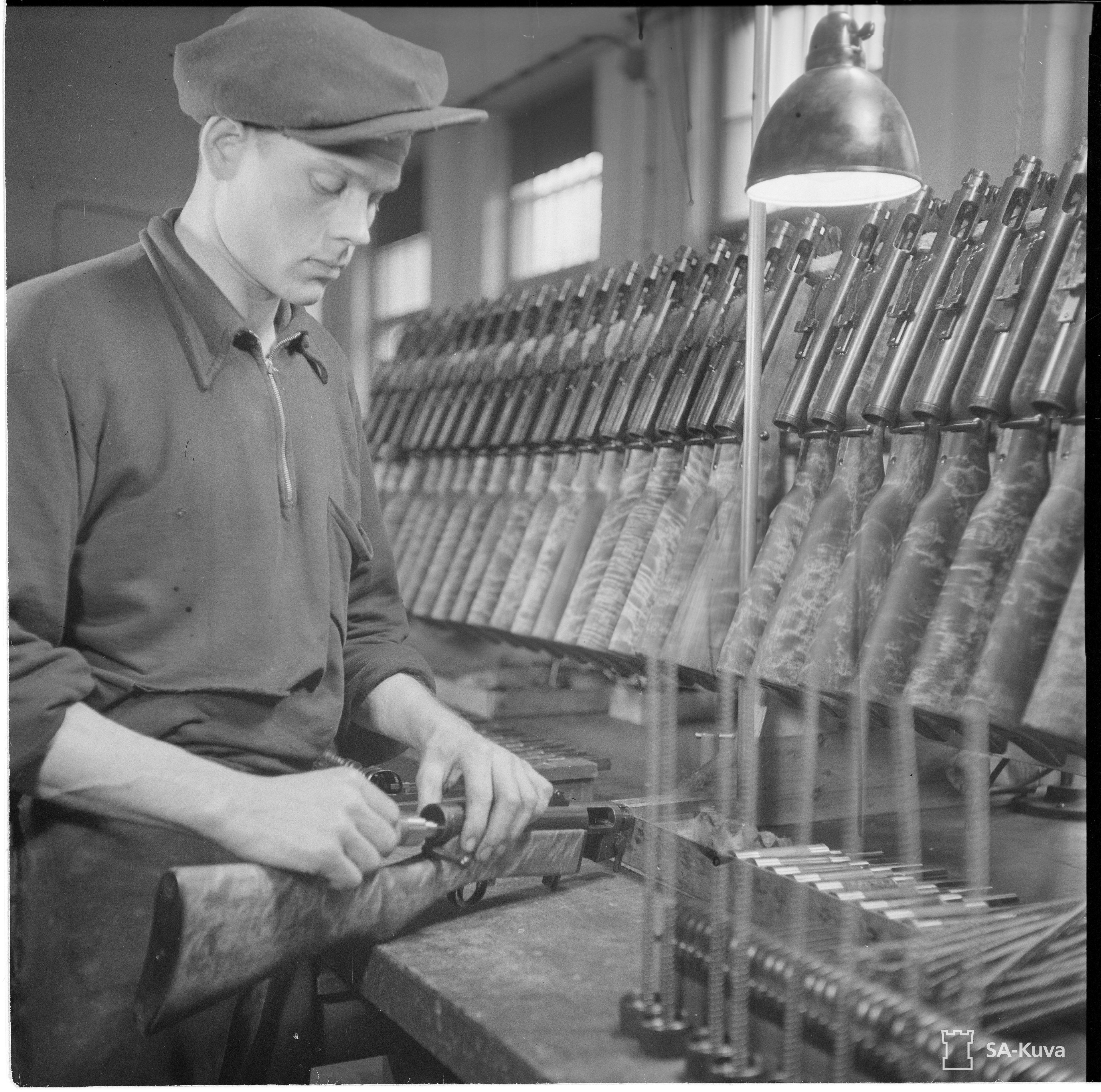 Assembly of Suomi M31 at Oy Tikkakoski Ab